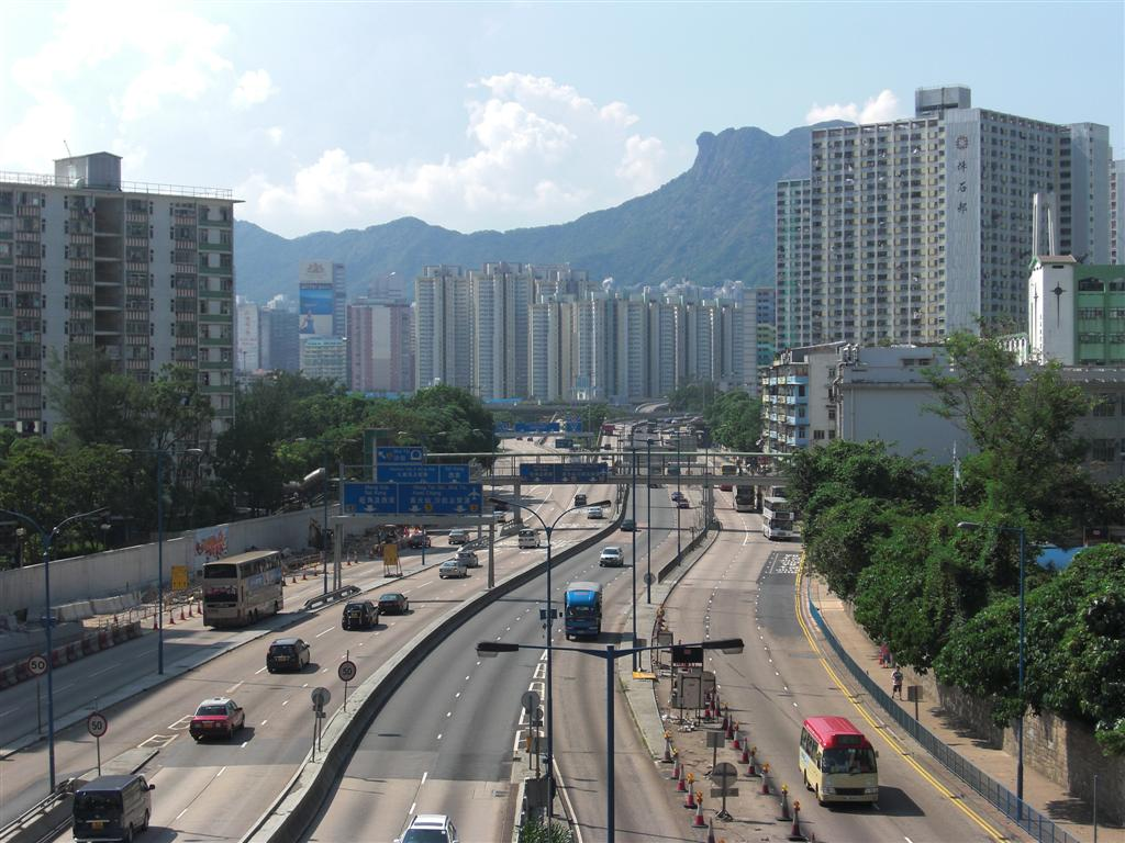 A view taken from Choi Ha Road, Ping Shan towards the northwest. Choi Hung Interchange is seen.